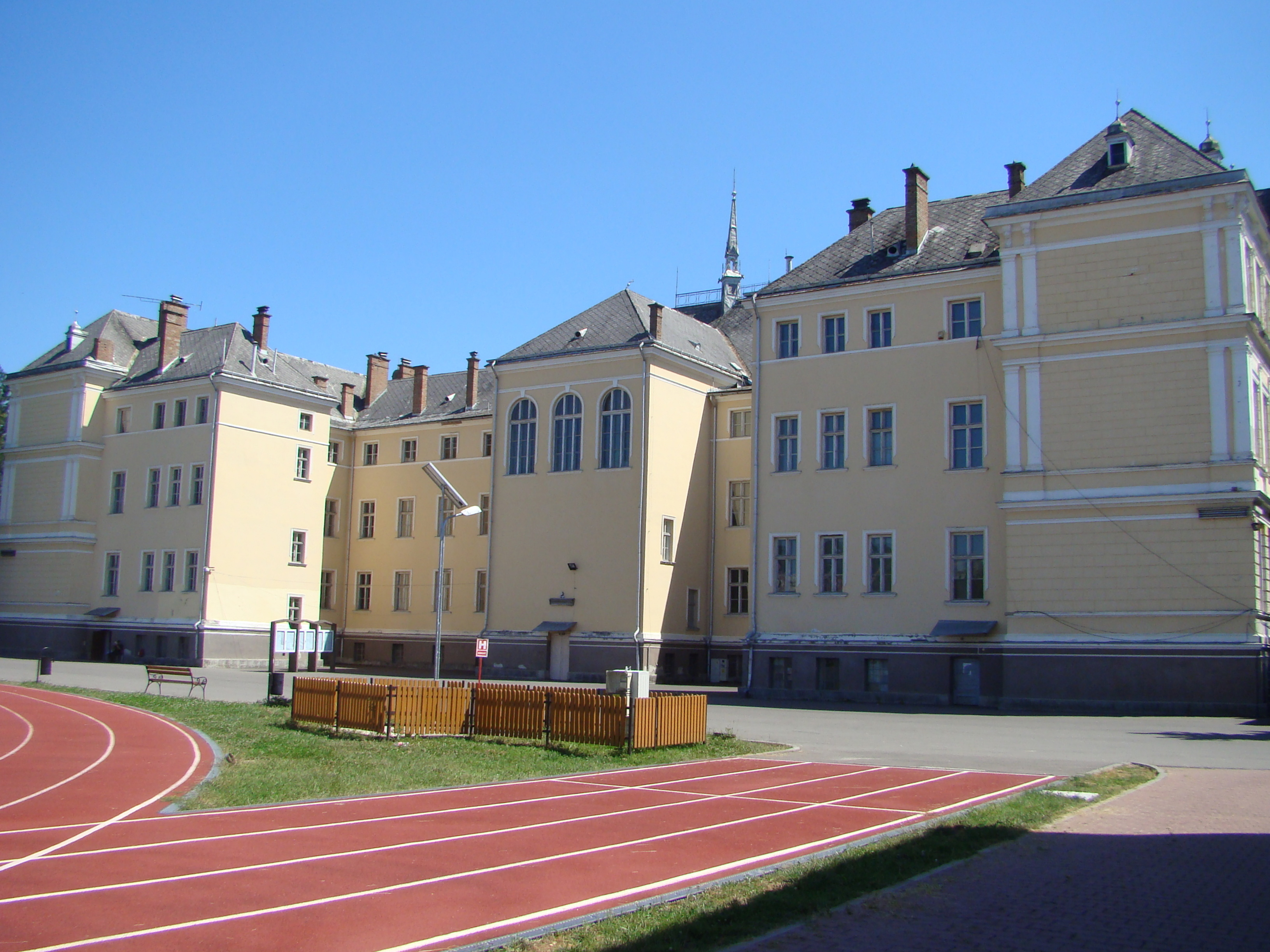 Liviu Rebreanu National College in Bistriţa